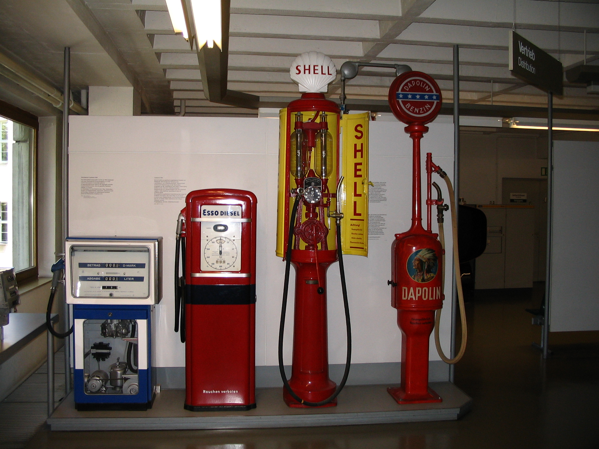 This image shows a photo of different historical petrol pumps in the "Deutsches Museum", Munich (Germany)